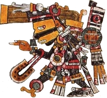 From the Codex Borgia, 15th century.